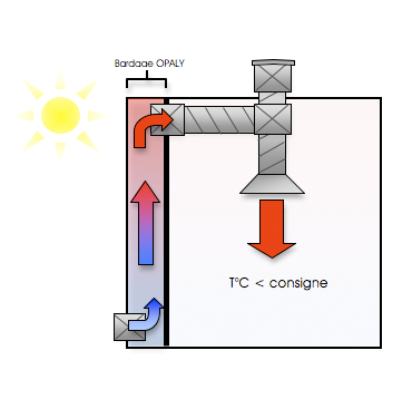 Functioning of the air source solar panels